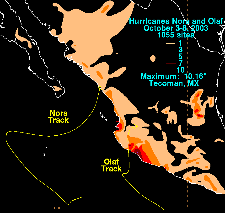 Storm total rainfall map of Hurricane Nora and Hurricane Olaf during October 2003.